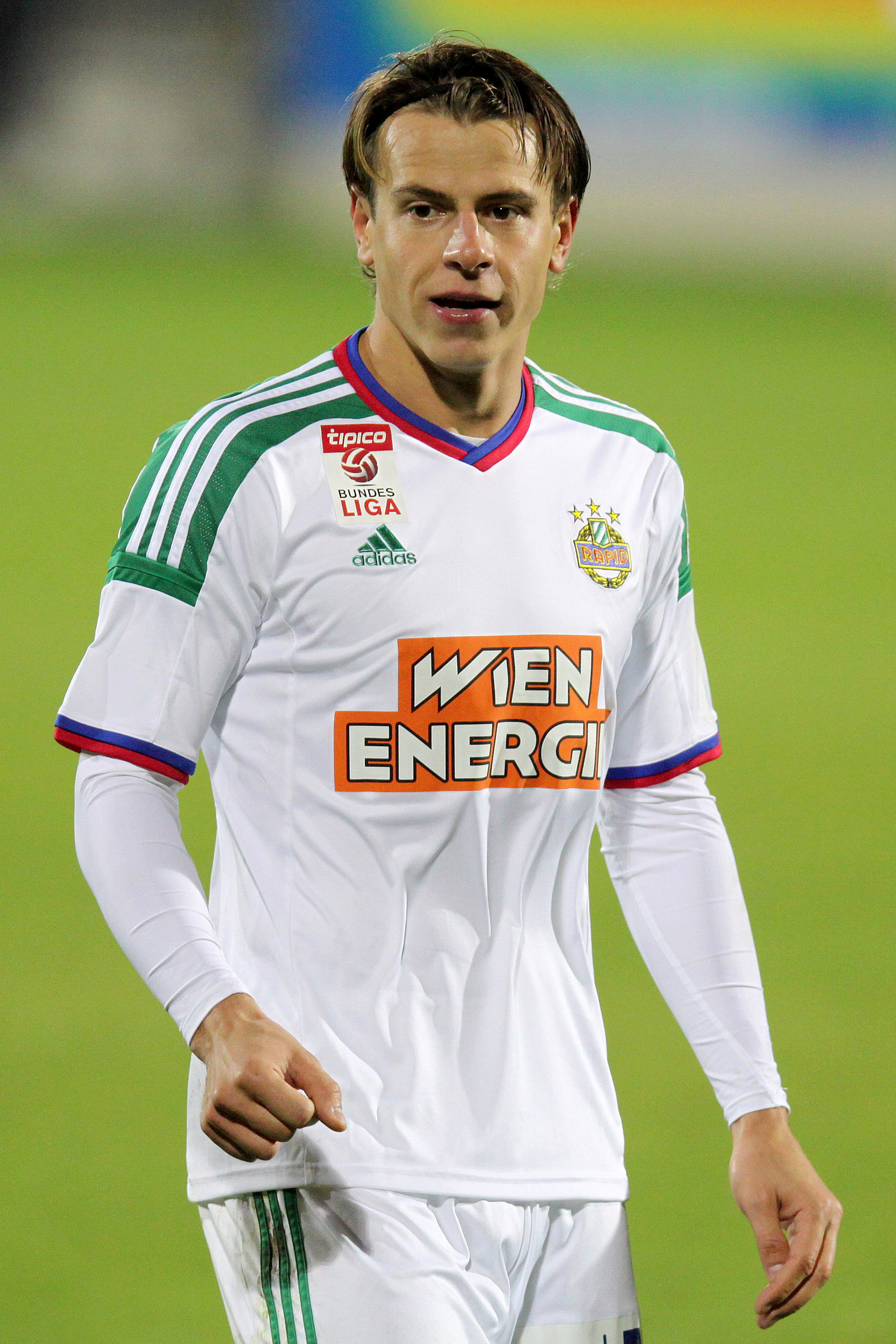 Match of the Austrian Football Bundesliga – SV Mattersburg (green shirts) vs. SK Rapid Wien (white shirts) 1-6 (0-5) at 2015-11-21 in Pappelstadion, Mattersburg – The photo shows Stefan Schwab.